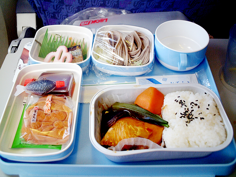 Economy Meal on Air China planeAirline food